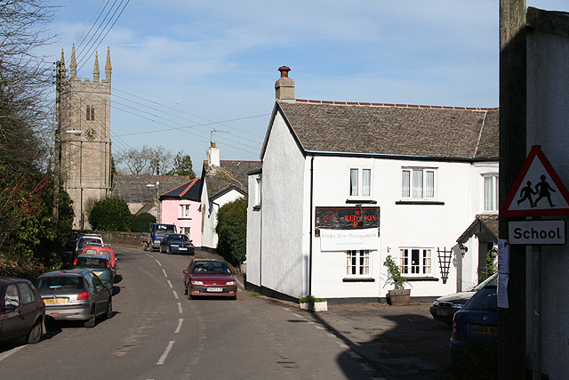 View north up High Street, Exbroune, Devon. On the right is the Red Lion pub. Further up the street is the parish church of St Mary the Blesséd Virgim.